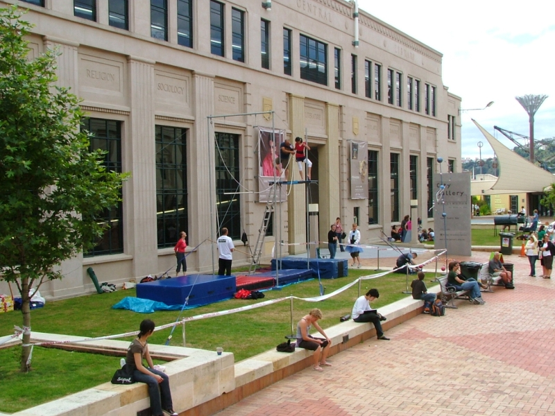 City Gallery, Civic Square, Wellington, New Zealand